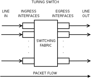 Simple diagram of a Turing switch